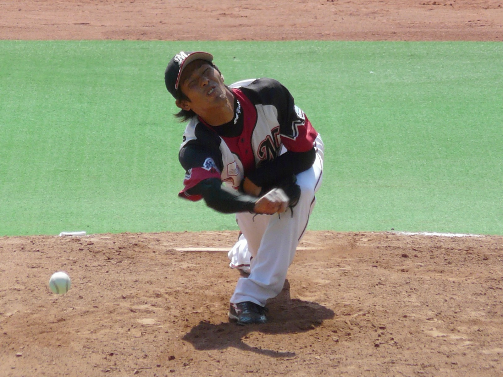 Yuta-Shimoshikiryo